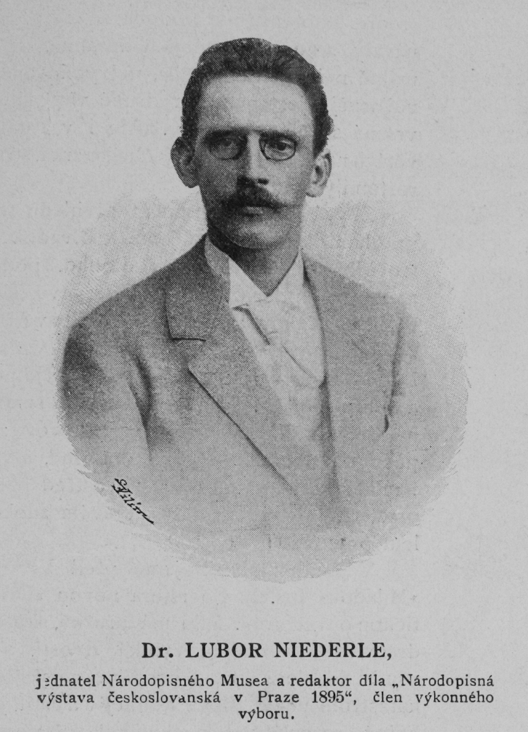 Portrait of Lubor Niederle (1865 - 1944), Czech Slavist, anthropologist and archaeologist. The picture shows him as a member of executive committee of Czech & Slavonic Ethnographic Exhibition in Prague 1895.